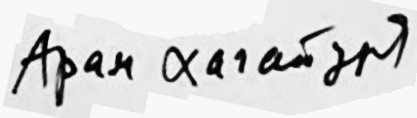 Signature of Aram Khachaturian